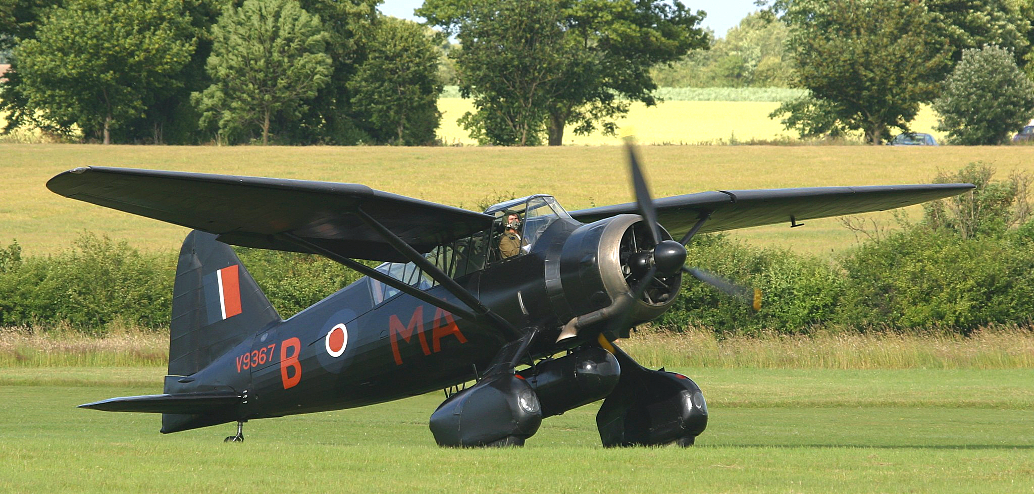 Wesland Lysander, flying example at Shuttleworth, 2004